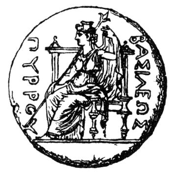 Coin showing Dione on throne.